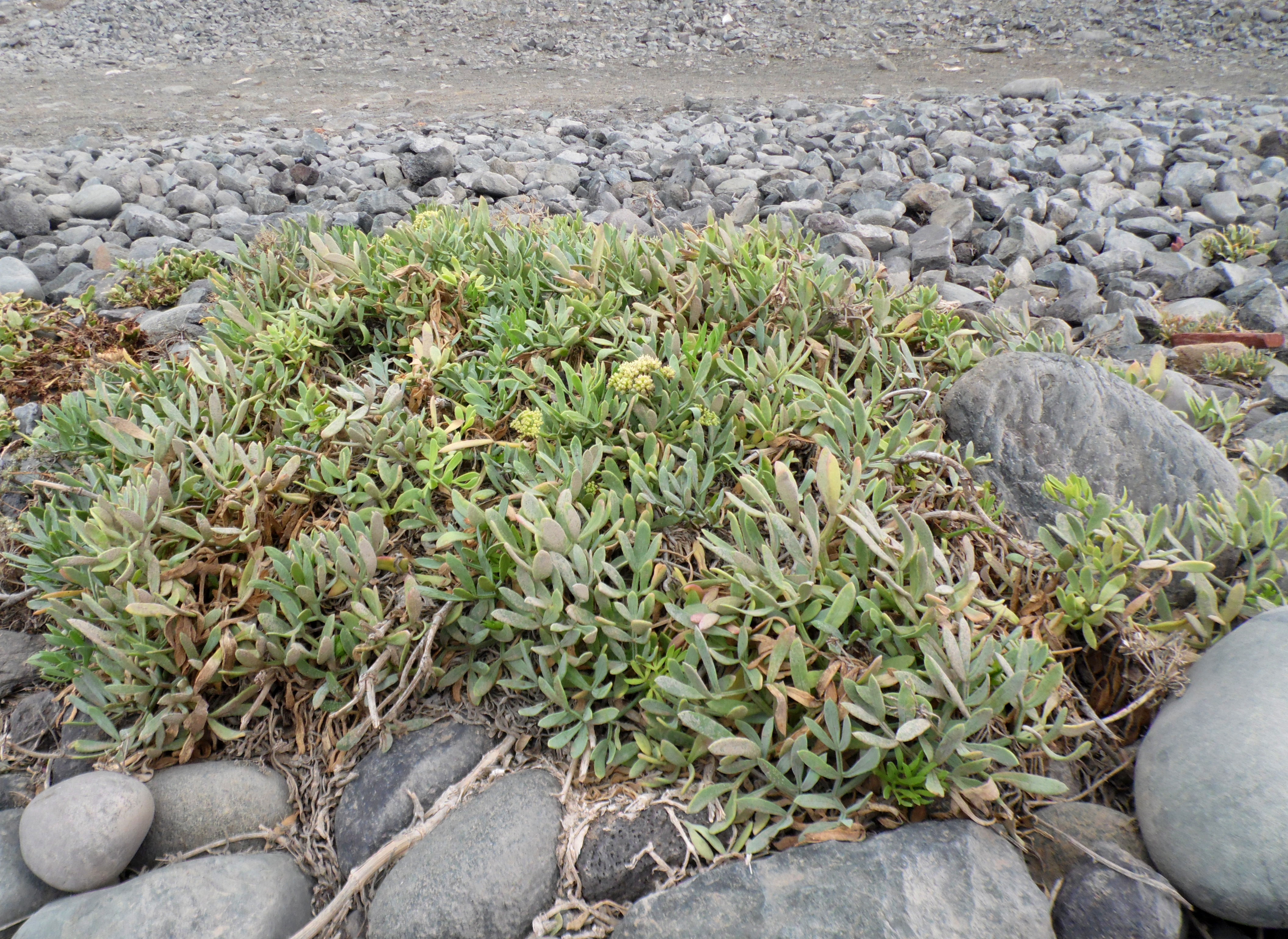 Crithmum maritimum in Pozo de Izquierdo on Gran Canaria